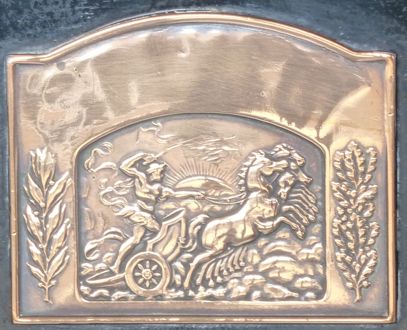 Emblem American Steam Car